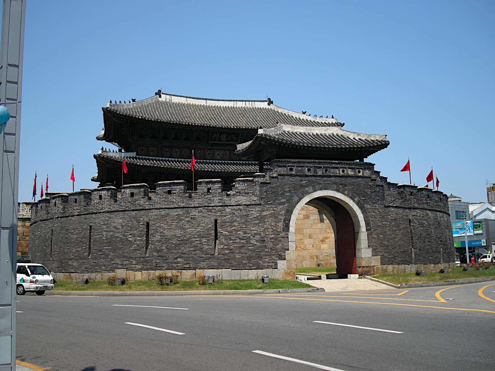 Southern gate, called Paldalmun, of Hwaseong fortress in Suwon, South-Korea